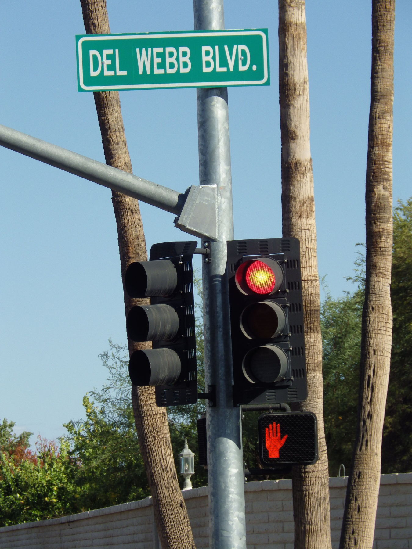 Del Webb Blvd. sign, Sun City, AZ, USA